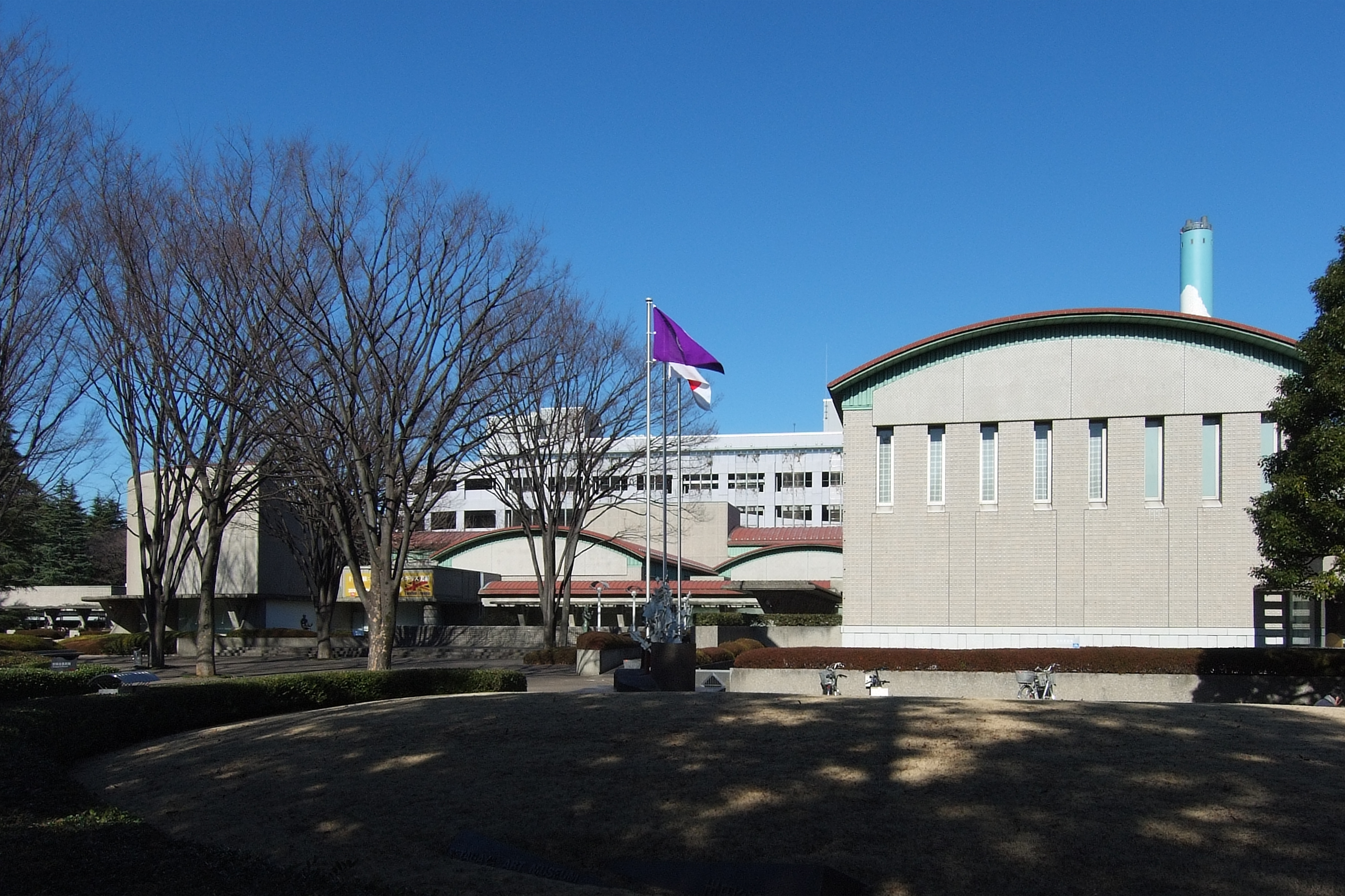 Setagaya Art Museum, at Setagaya Tokyo Japan, design by Shozo Uchii in 1986.